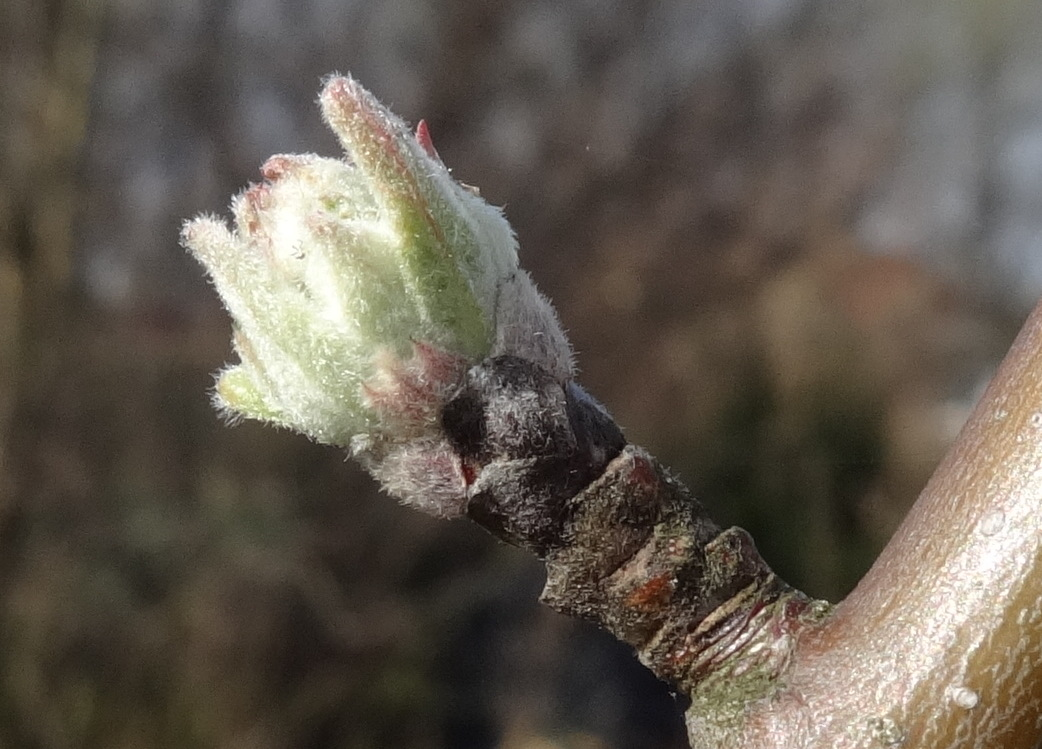 Berlin in winter